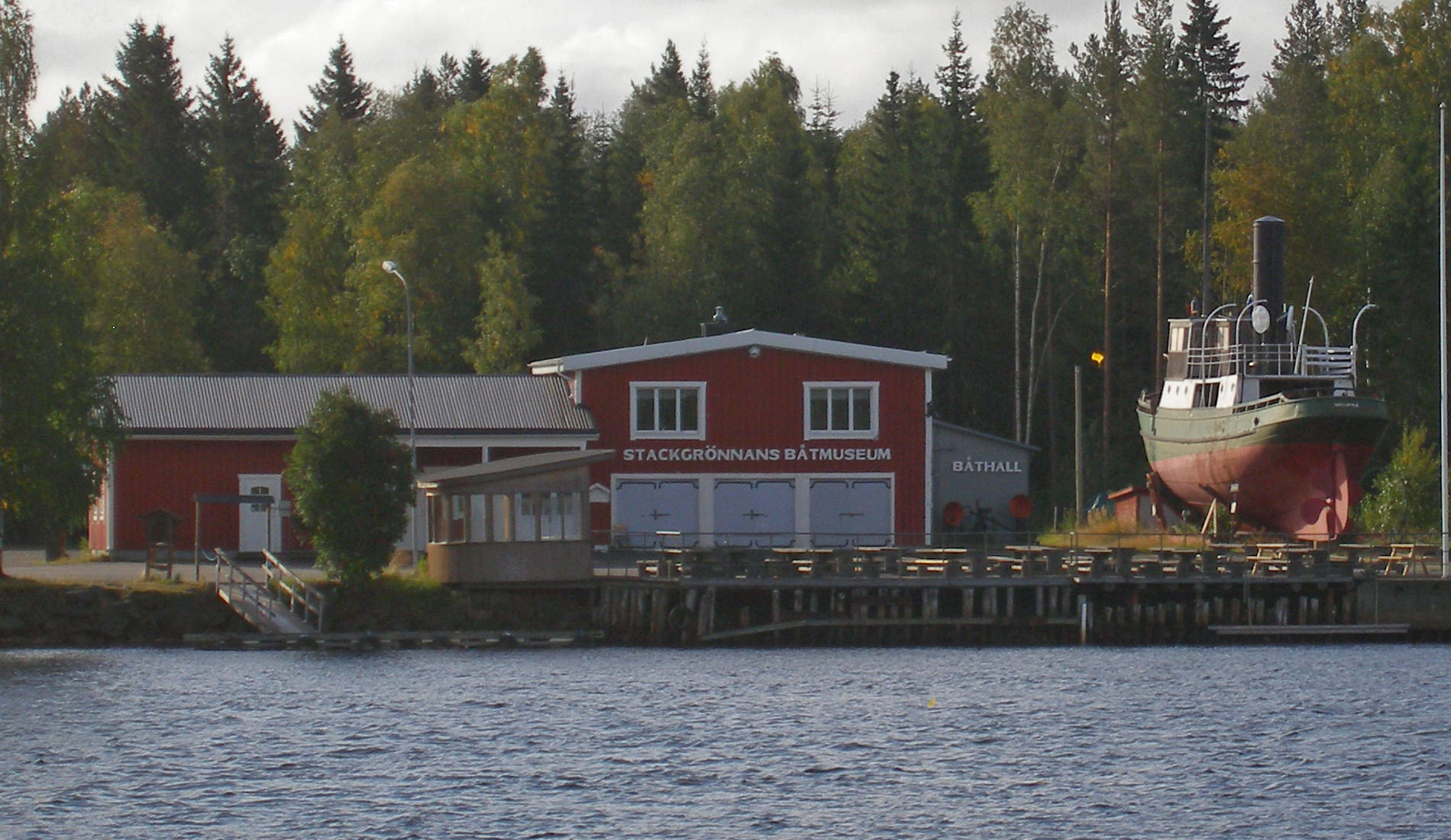 Stackgrönnans boat museum east of Skellefteå, Sweden.